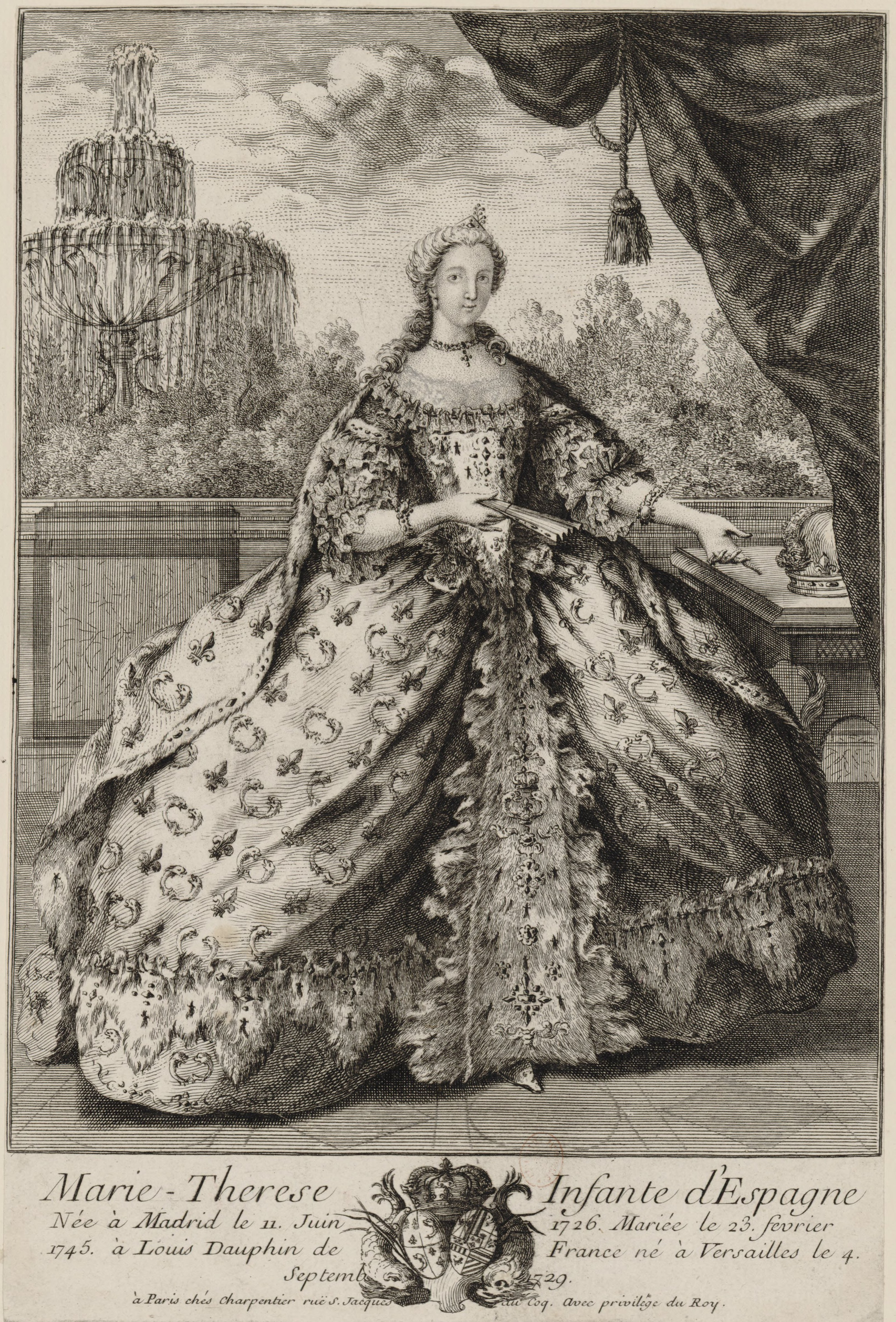 Portrait of Marie Thérèse Raphaëlle of Spain (1726-1746)